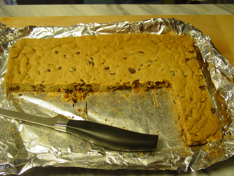 I took this image from a picture I took on 6 June 2007